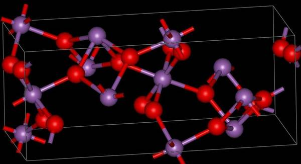 Structure of cervantite (SbO2 or Sb2O4). Red atoms are oxygens. journal = ACTA CRYSTALLOGRAPHICA, SECTION B: STRUCTURAL CRYSTALLOGRAPHY AND CRYSTAL CHEMISTRY, Year = 1977, Volume = 33, Page = 1271–1273, Title = A Neutron Diffraction Study of a-Sb2O4, Author = Thornton G